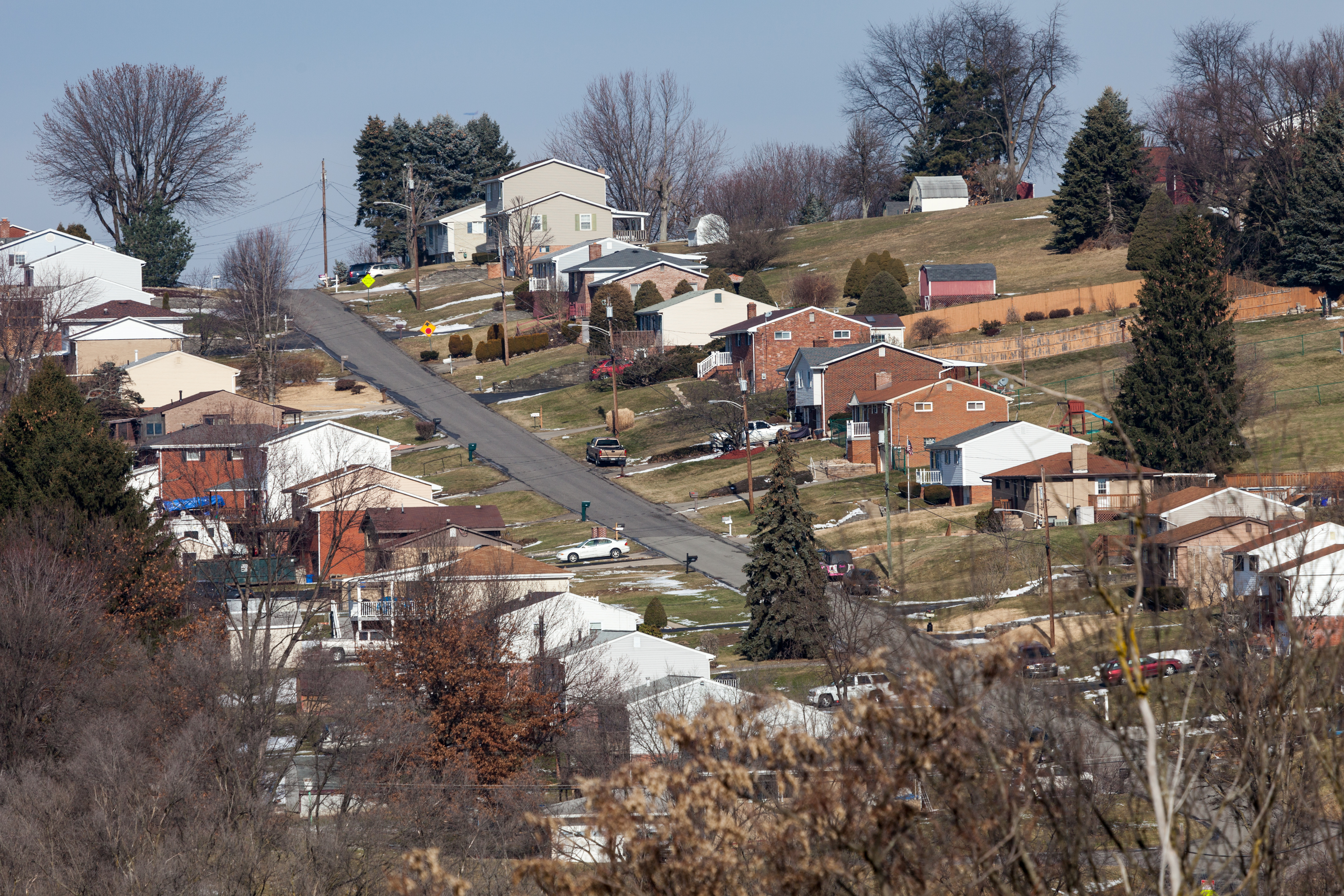 A residential hillside in Canton Township, Washington County, Pennsylvania on Cortez Dr, as seen from Oakwood Ave.